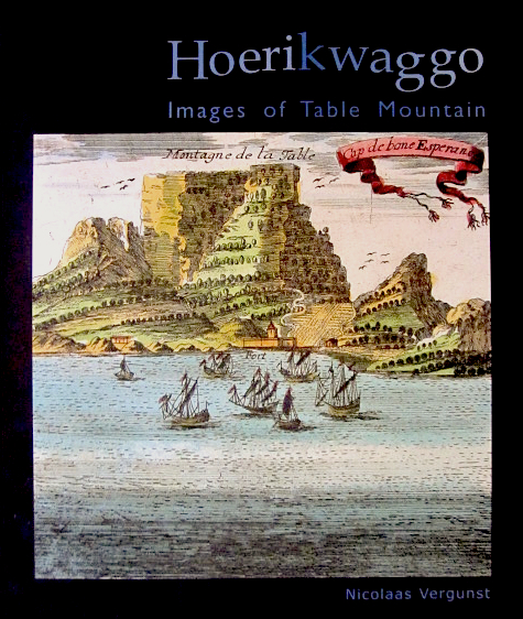 Produced for a landmark exhibition at the SA National Gallery in 2000, ‘Hoerikwaggo' brings together historic maps, travel journals, colonial prints, paintings, photographs and postcards of Table Mountain.